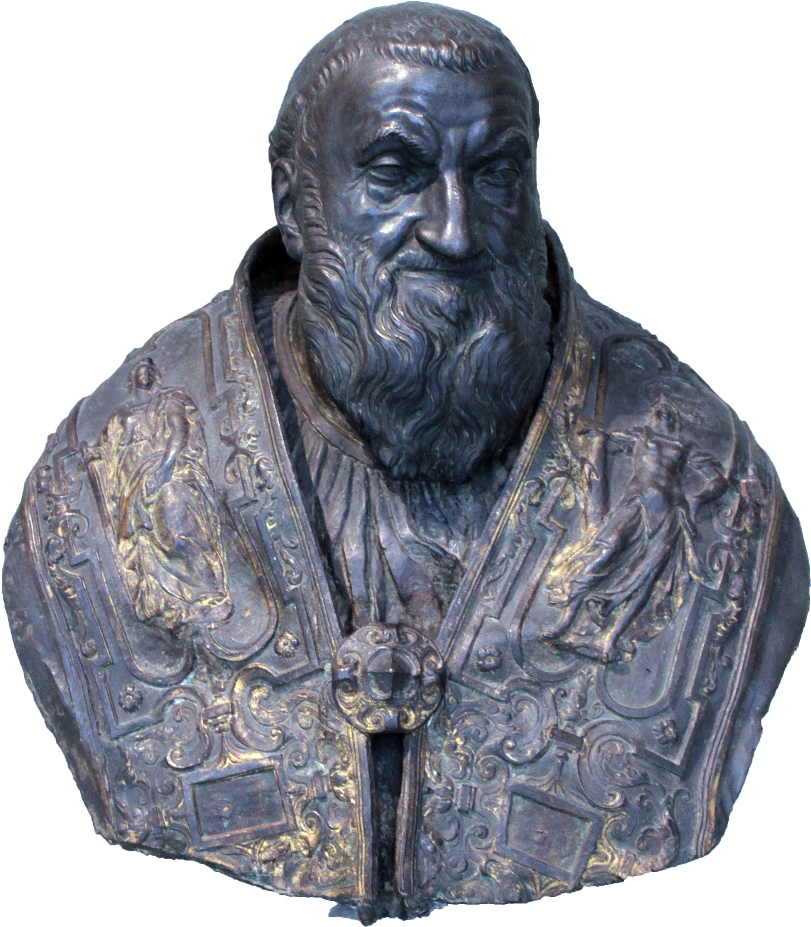 Papst Sixtus V. Peretti Montalto, 1585/90, Bodemuseum Berlin, Taddeo Landini Date of birth/deathcirca 1550 (other sources: circa 1561)13 March 1596Location of birth/deathFlorenceRomeWork locationFirenze, RomaAuthority control VIAF: 225444769 GND: 13373370X ULAN: 500015044